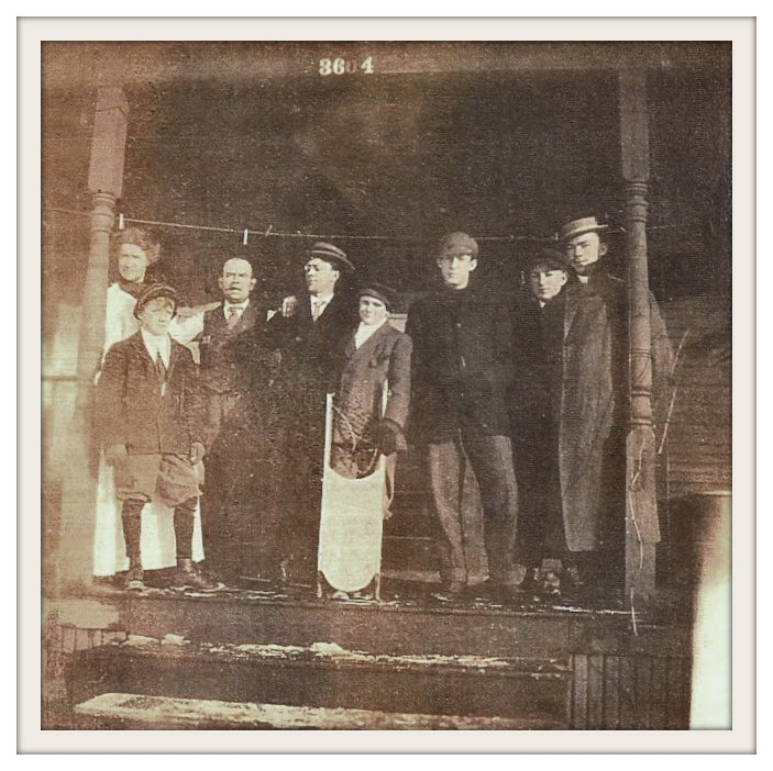 L to r : Sarah (the boy's mother remarried) and William Robinson, the young man between them is possibly Robinson's son ... John (Jack) A.Singleton, with his new wife Emma Royal Singleton, Harry Singleton, Eben Singleton, and a friend of Harry's whose name is unknown. Taken in Oregon, early 1890's. An interesting angle on this photo is that it may very well have been taken by photographer / artist Myra Albert Wiggins. She was THE female photographer of the period within a few years, very close first cousin of the Singleton boys, and cameras weren't very common in that day and age ... who knows ... but it certainly is a well-posed and well framed photograph.